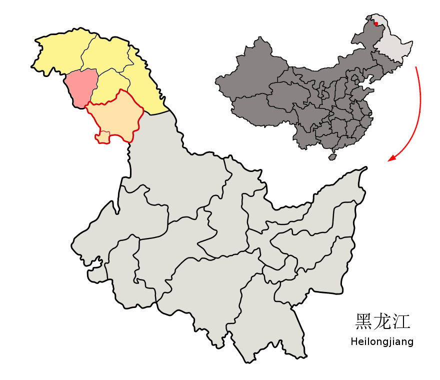 Location of Huzhong District (pink) and Daxing'anling Prefecture (yellow) within Heilongjiang Province of China. Jiagedaqi and Songling Districts (light salmon), under Heilongjiang administration, nominally belong to Inner Mongolia. Map drawn in november 2007 using various sources, mainly : Heilongjiang Province administrative regions GIS data: 1:1M, County level, 1990 Heilongjiang Counties map from Map of Daxing'anling Prefecture